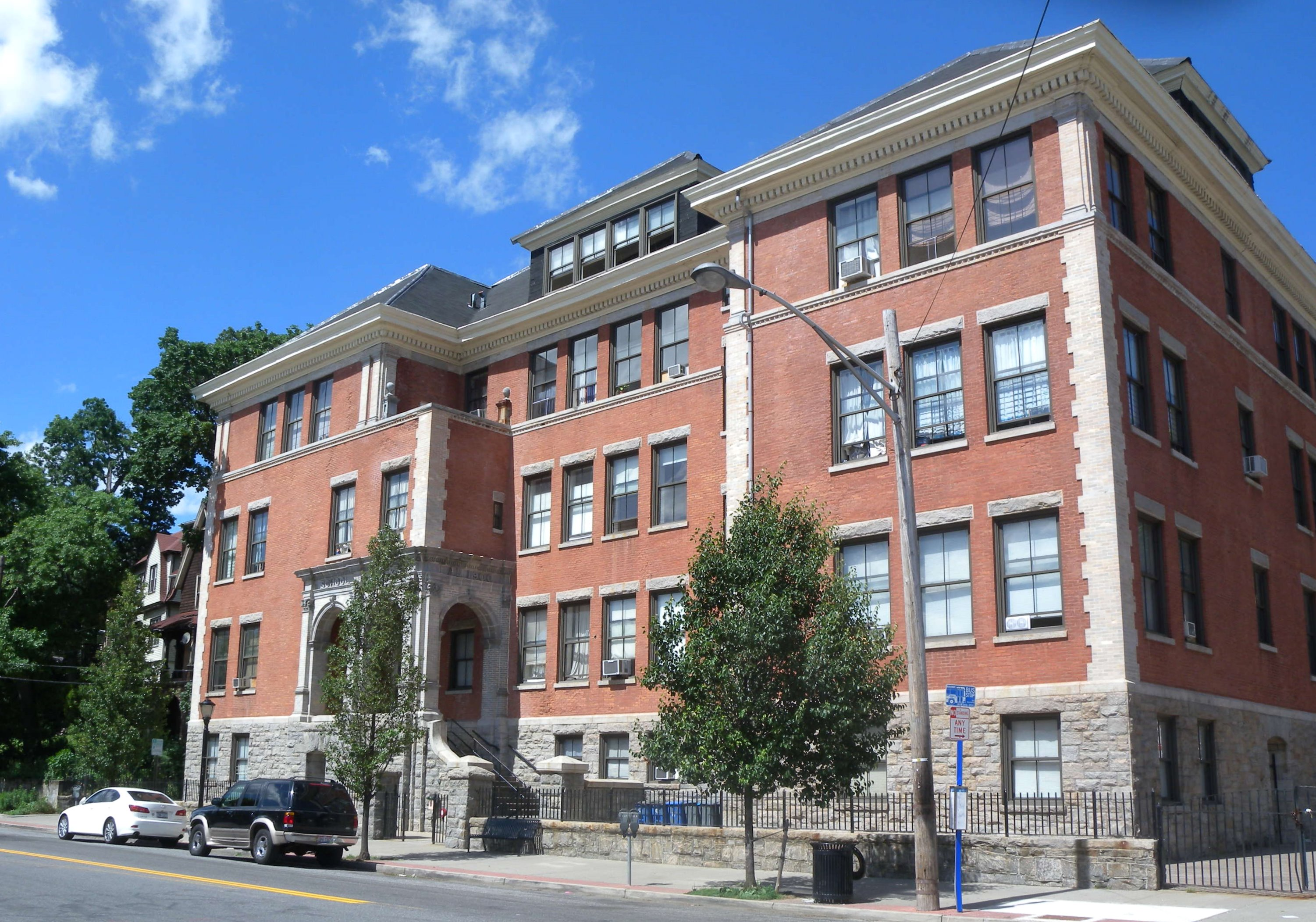 Looking north across McLean at former PS 13 on a sunny afternoon.